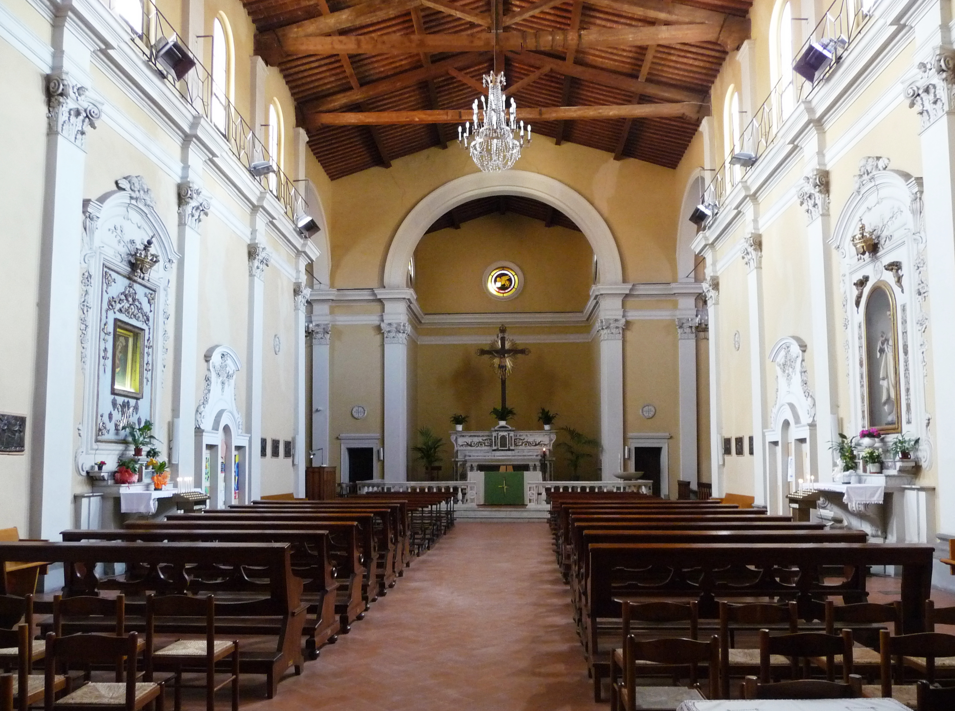 Church "San Marco alle Cappelle", Pisa, Italy